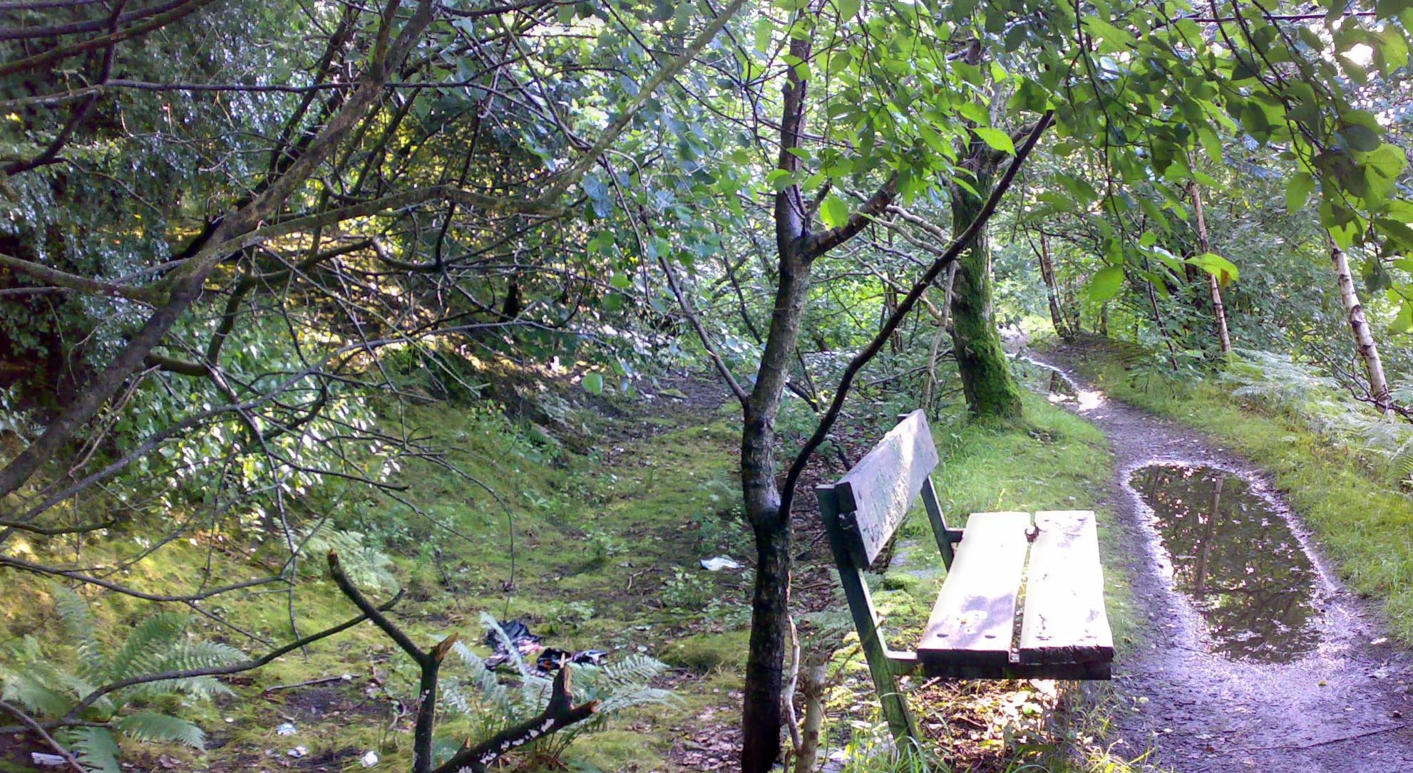 A bench on the towpath of Fletcher's Canal, just south of the M60. Actually its not near the end, I just checked the map and this image is about half way along. The coping stones are just behind the legs of the bench. The canal bed is on the left of the image.